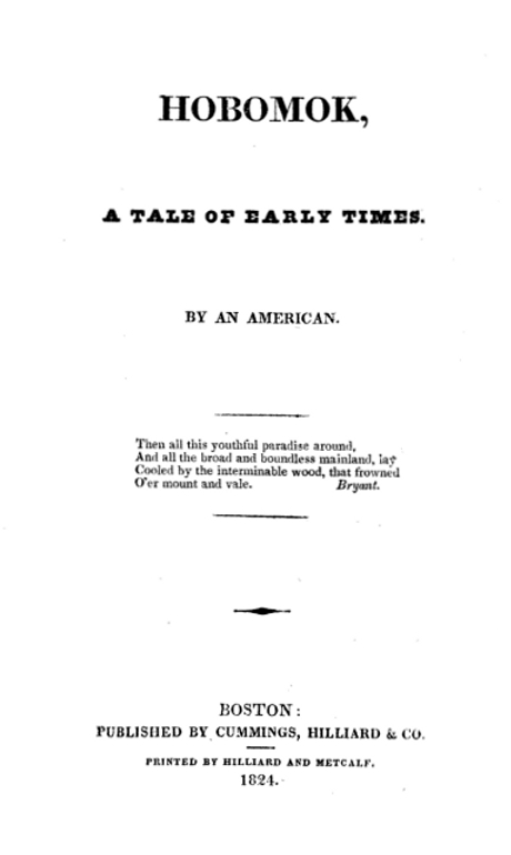 Title page Hobomok: a Tale of Early Times, by Lydia Maria Francis Child (listed here as "an American"). Published by Cummings, Hilliard & Co. (Boston), 1824.